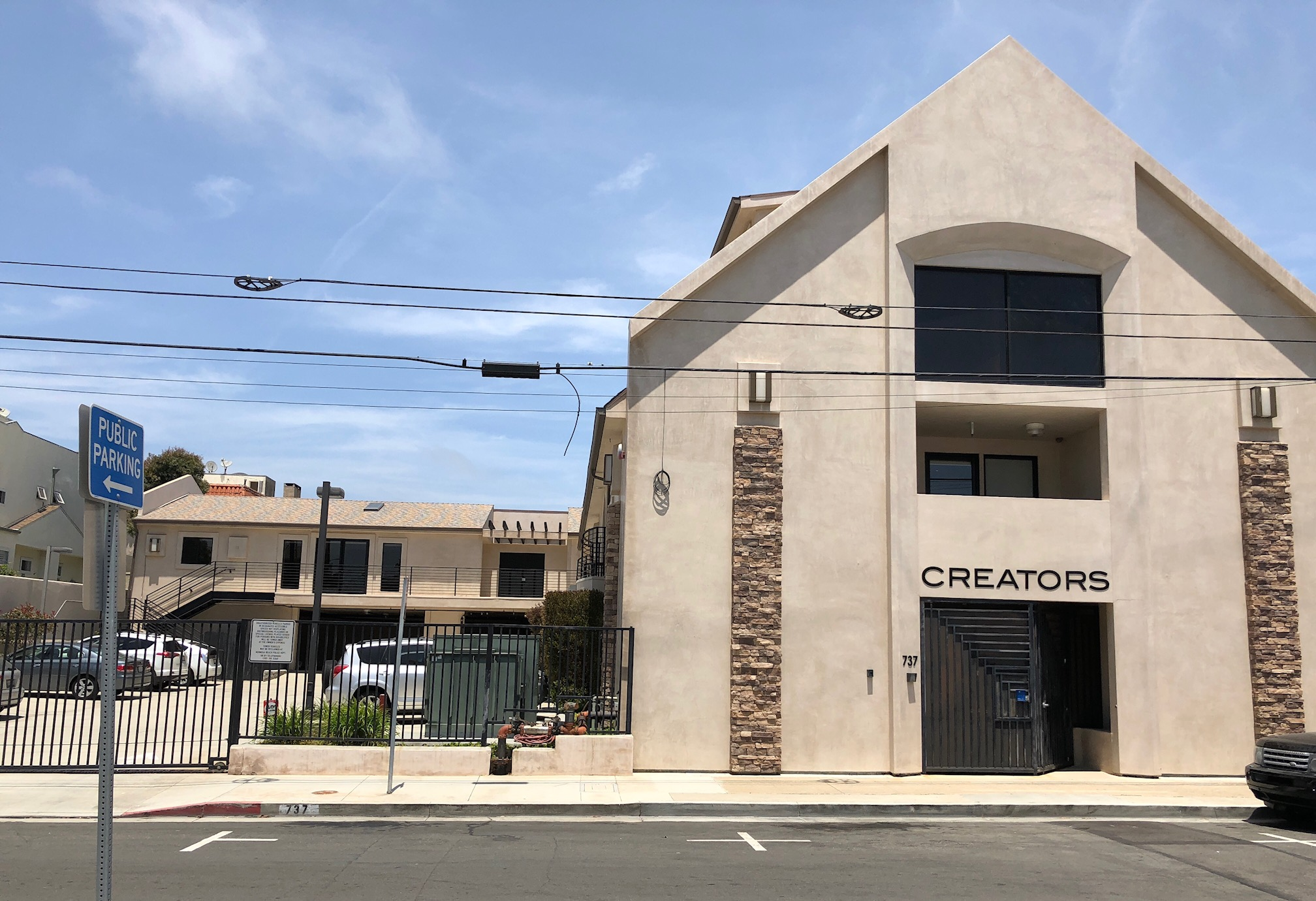 Creators Syndicate in Hermosa Beach, Calif.